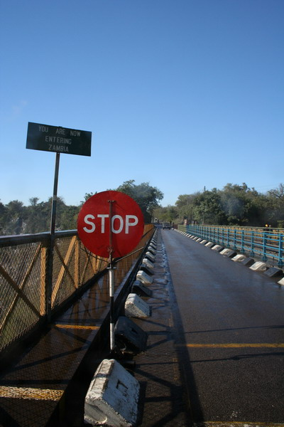 Zambesi bridge by Chirundu Zimbabwe/Zambia. The bridge over the Zambezi river.